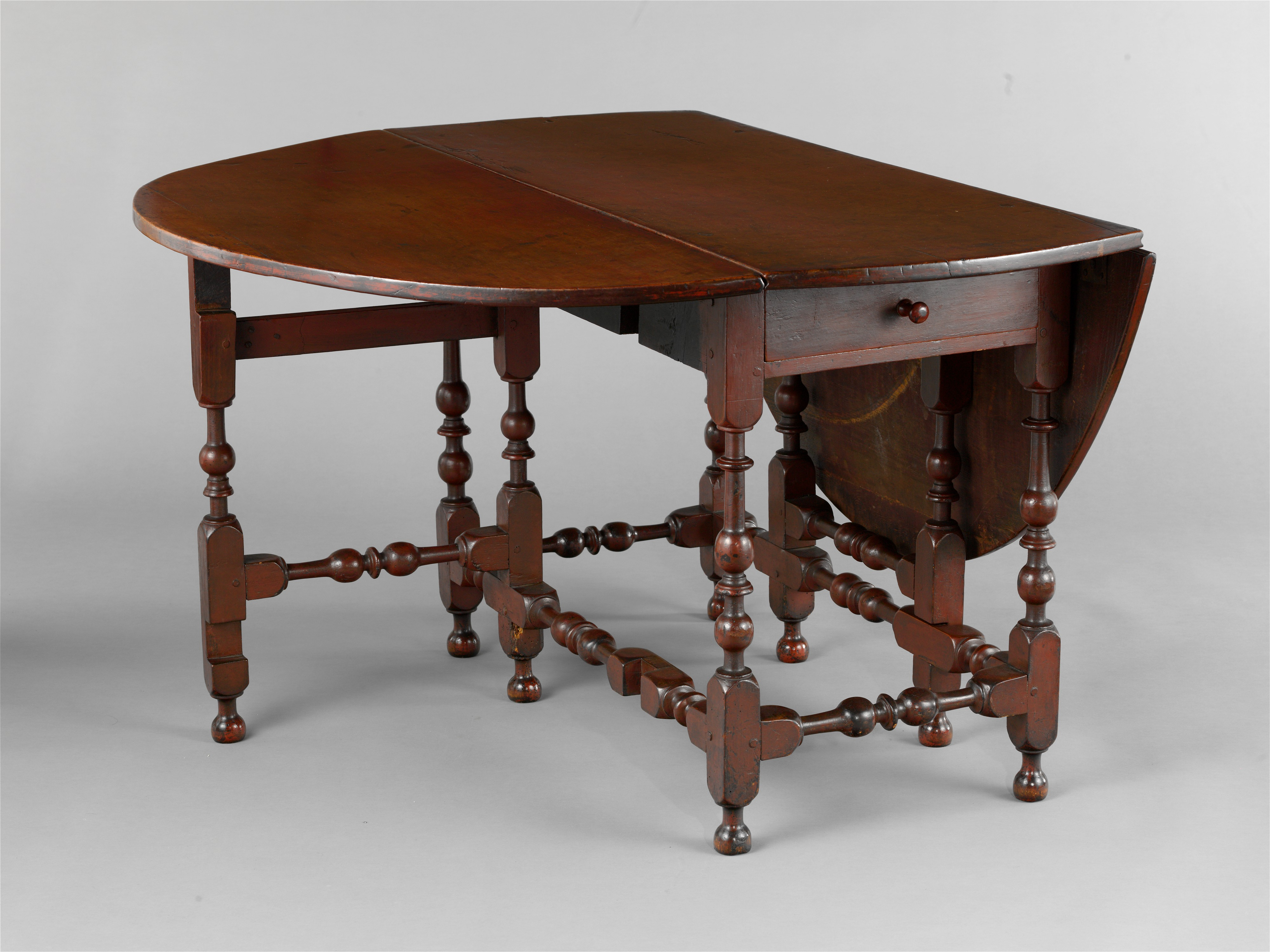 American; Table; Furniture